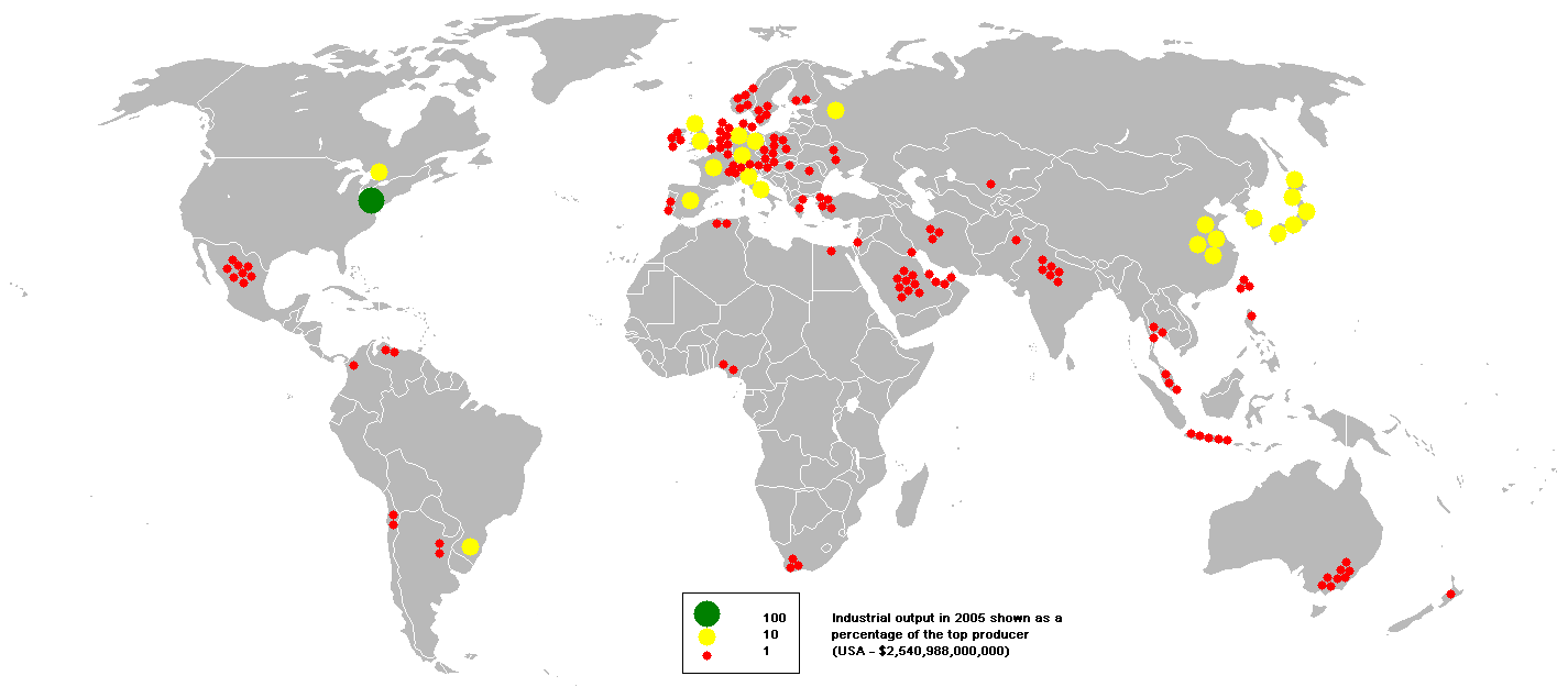 This bubble map shows the global distribution of industrial output in 2005 as a percentage of the the top producer (USA - $2,540,988,000,000). This map is consistent with incomplete set of data too as long as the top producer is known. It resolves the accessibility issues faced by colour-coded maps that may not be properly rendered in old computer screens. Data was extracted on 31st May 2007. Source